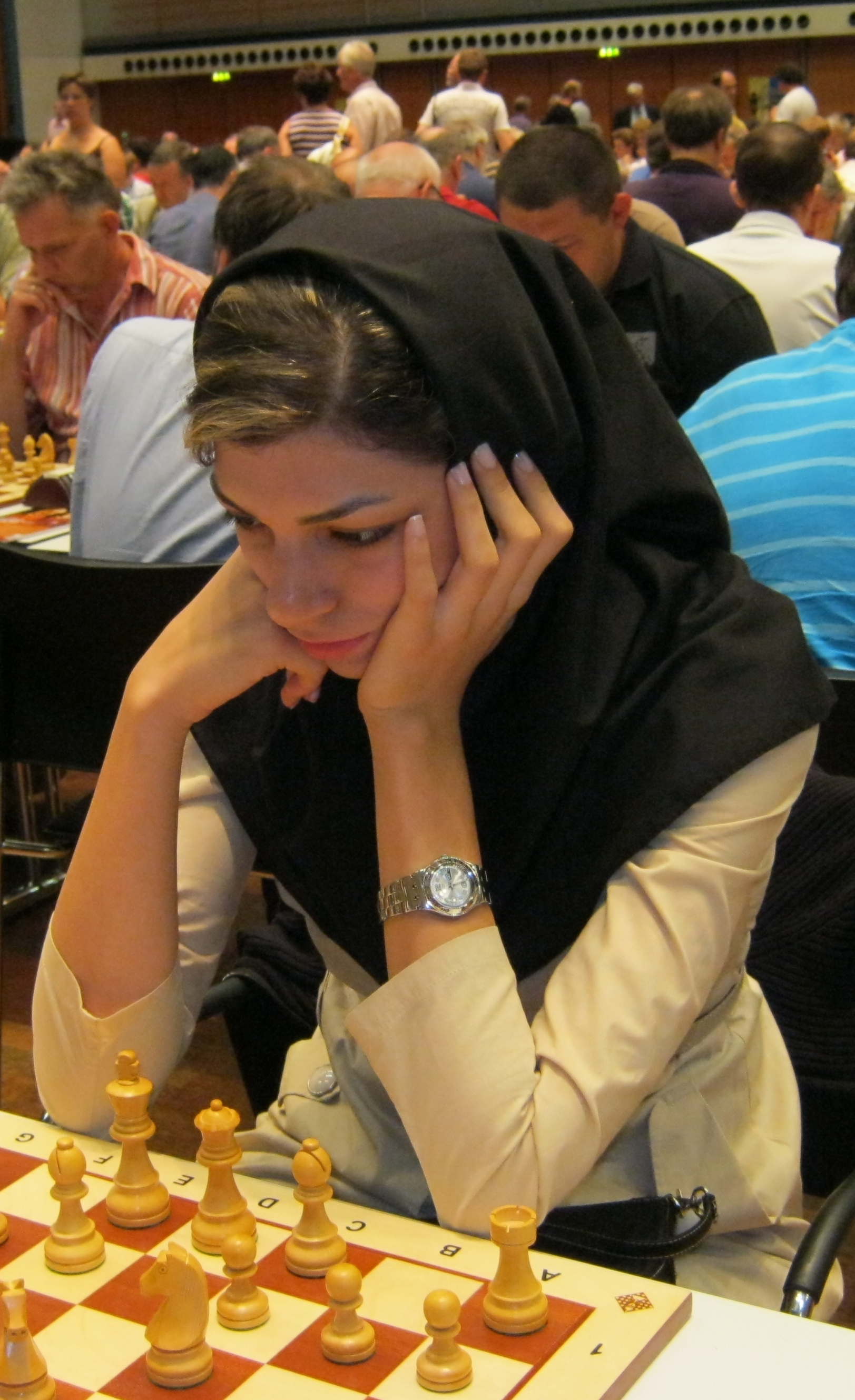 Atousa Pourkashiyan, chess player (woman grandmaster) from Iran